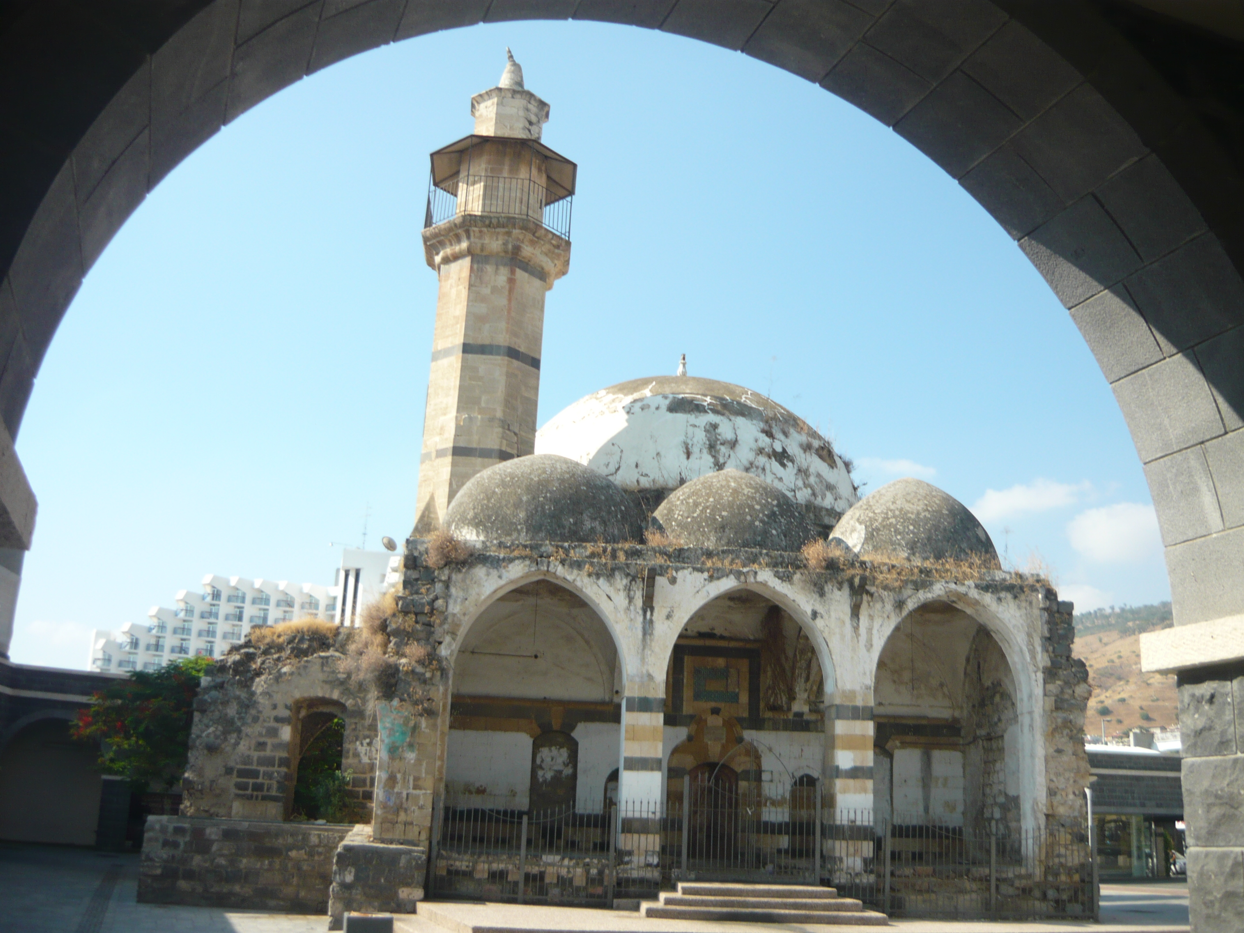 front of zidani mosque